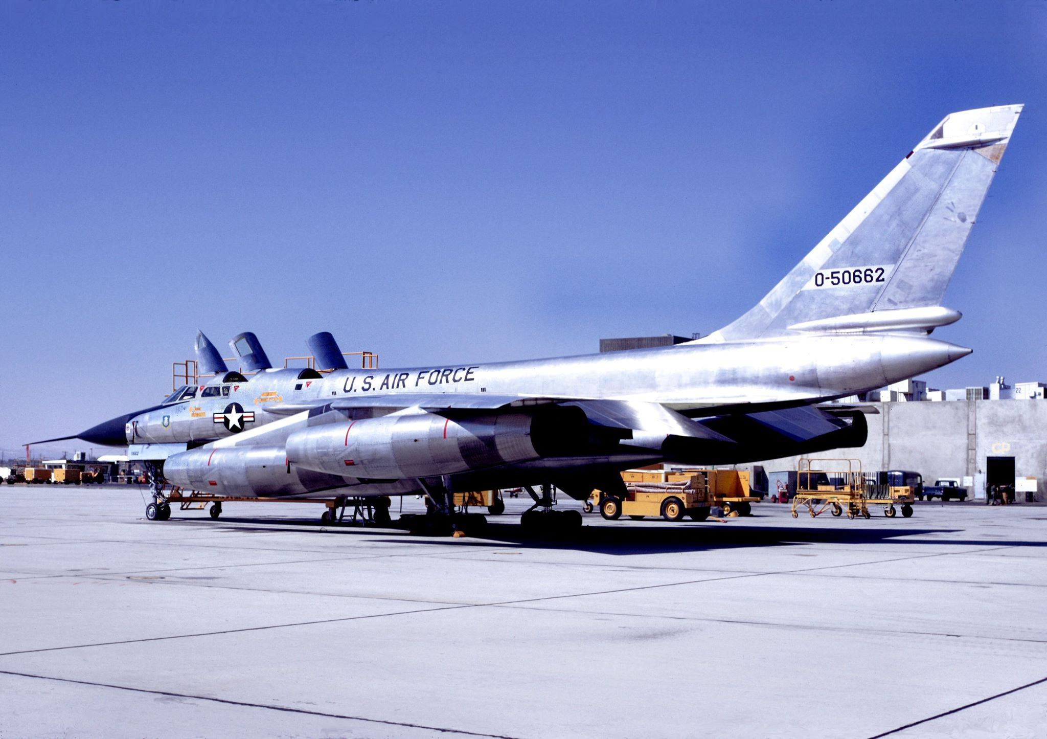 Convair TB-58A Hustler 55-0662